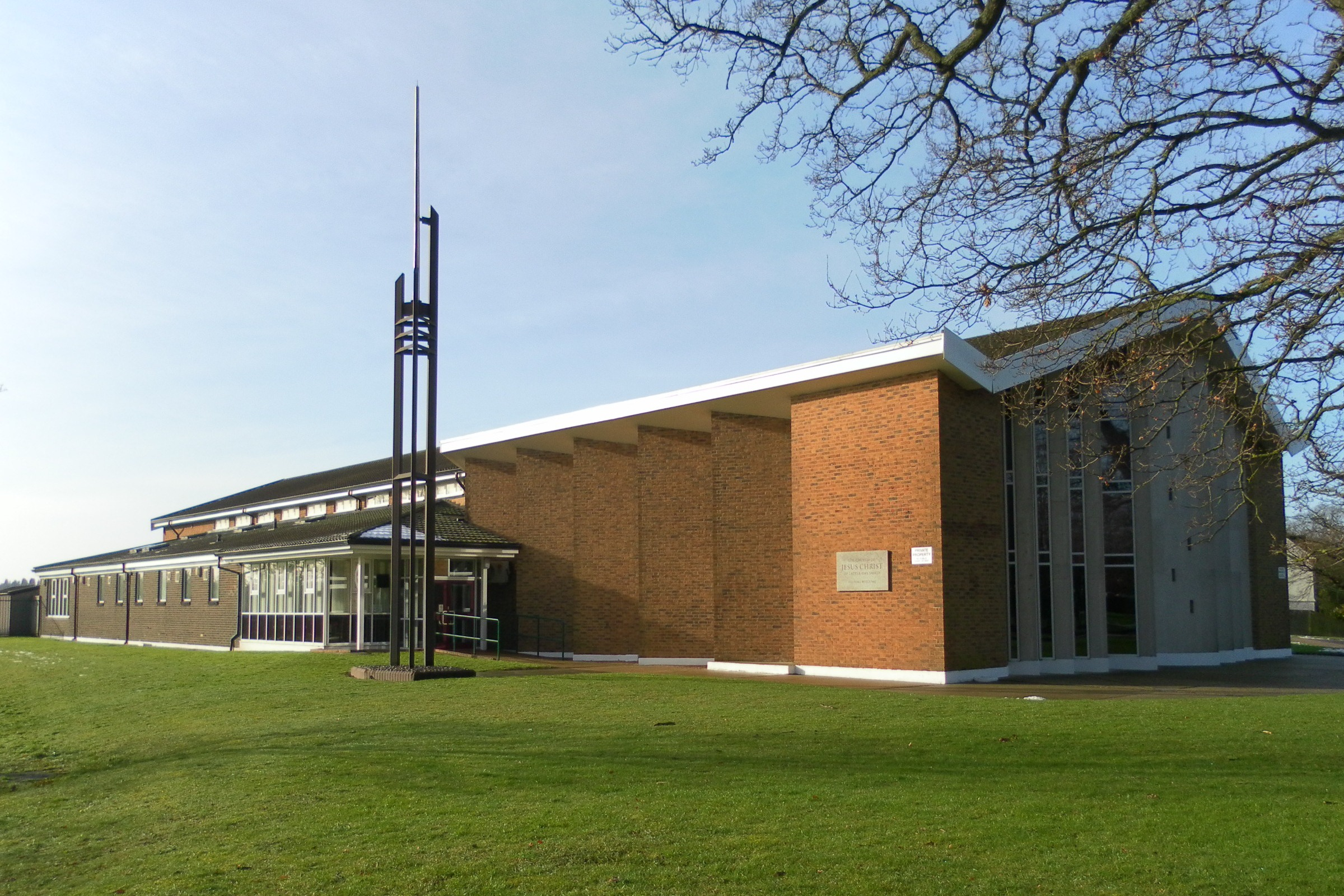 A meetinghouse of The Church of Jesus Christ of Latter-day Saints in the Southgate neighbourhood of Crawley, West Sussex, England.